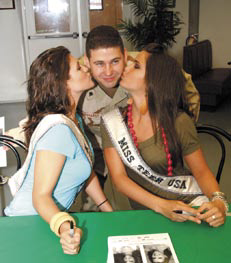 Chelsea Cooley, Miss USA 2005 and Shelley Hennig, Miss Teen USA 2004 with Spc. Deane Barnhardt at JFT-GTMO, June 27 2005